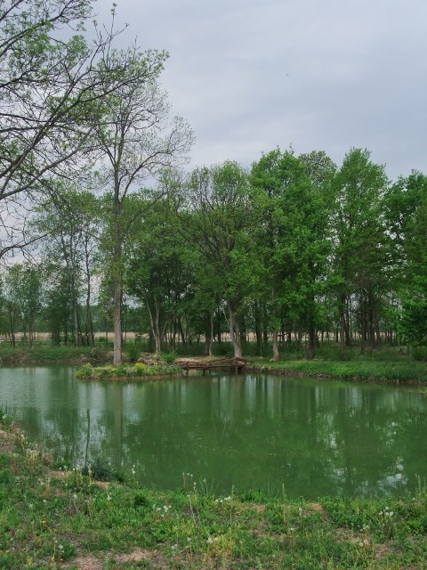 Bardača is a nature reserve with 11 lakes, unique in BiH region, with colonies of protected birds, marshes and aquatic flora and fauna.